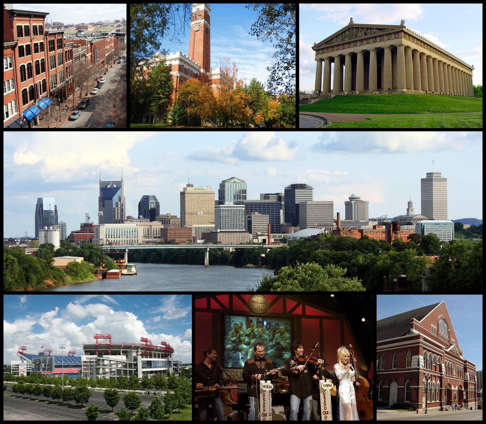 Collage of Nashville landmarks. Top row: 2nd Avenue, Kirkland Hall (Vanderbilt University), The Parthenon; Middle row: Nashville Skyline; Bottom row: LP Field, Grand Ole Opry, Ryman Auditorium.